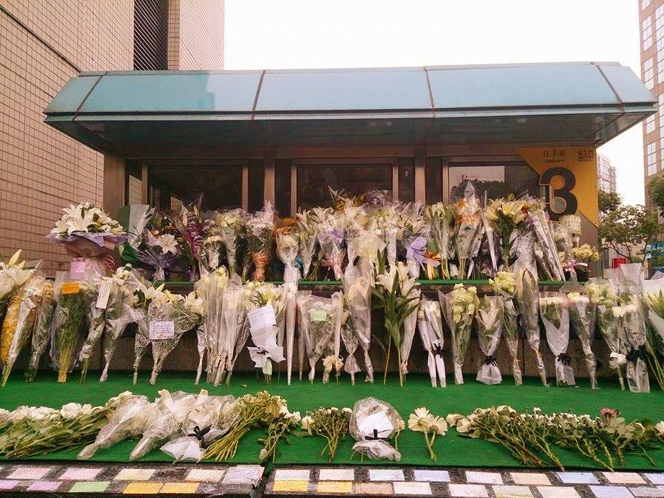 Tribute for the 2014 Taipei Metro attack at Exit 3, Jiangzicui Station, Banqiao District, New Taipei City, Taiwan